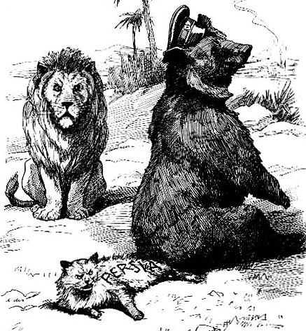 A cartoon from the English satirical magazine Punch, or The London Charivari. With the Russian Bear sitting on the tail of the Persian Cat while the British Lion looks on, it represents a new friendship regarding the Anglo-Russian Entente of 1907 and their plan to divide Persia. The caption reads: "AS BETWEEN FRIENDS. British Lion (to Russian Bear). 'IF WE HADN'T SUCH A THOROUGH UNDERSTANDING I MIGHT ALMOST BE TEMPTED TO ASK WHAT YOU'RE DOING THERE WITH OUR LITTLE PLAYFELLOW.'"